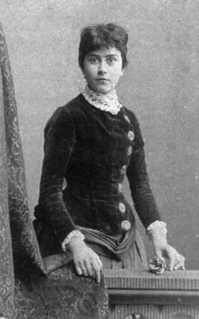 Else Schüler as a young wife. The wedding ring on her right hand and the rose in her left suggest that this photo was taken shortly after her 1894 marriage to Berthold Lasker.